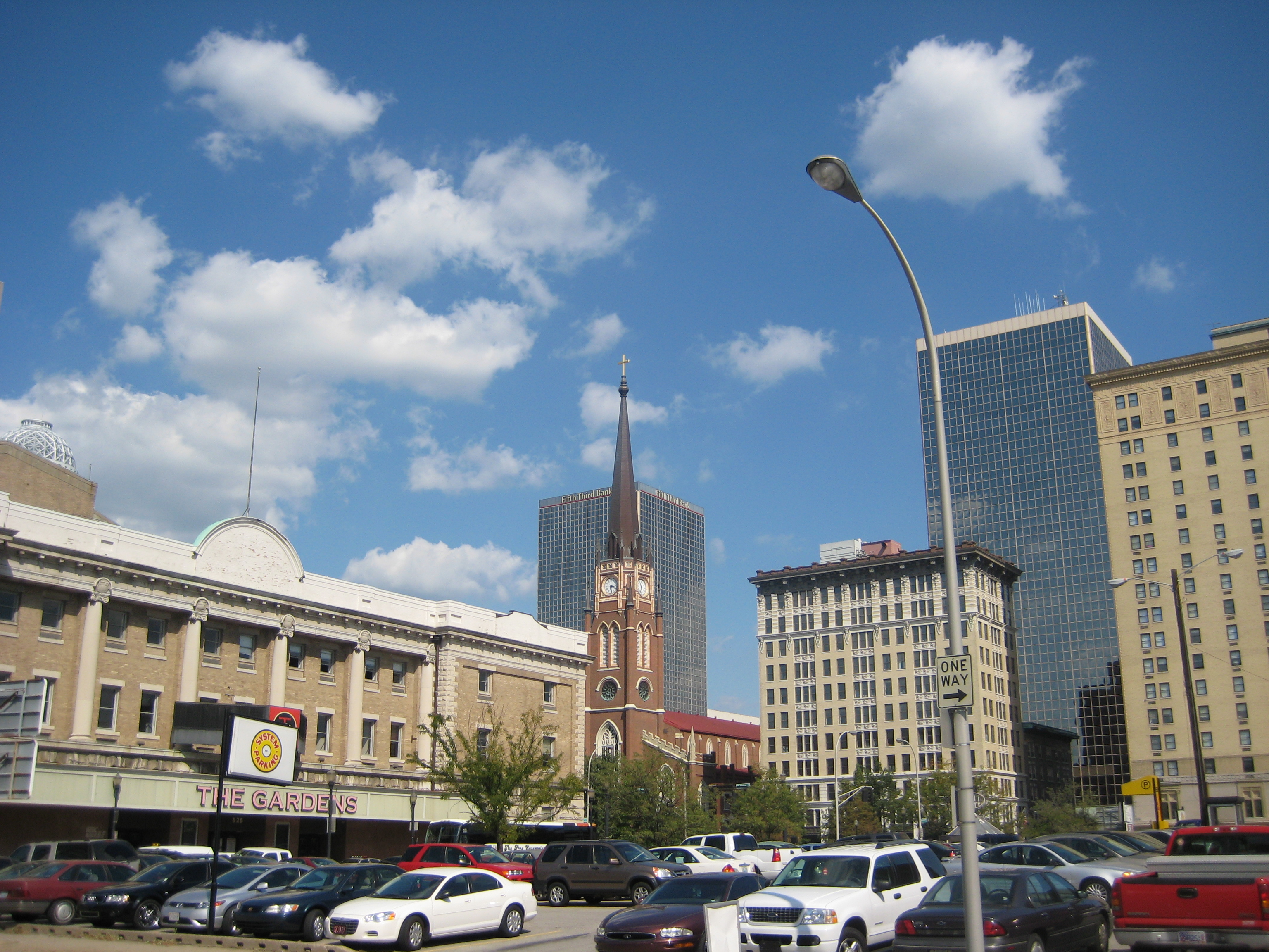 Buildings in Louisville, Kentucky